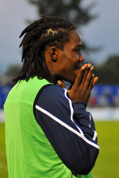 Picture of soccer player, Kénold Versailles. Wilson Wong photo.